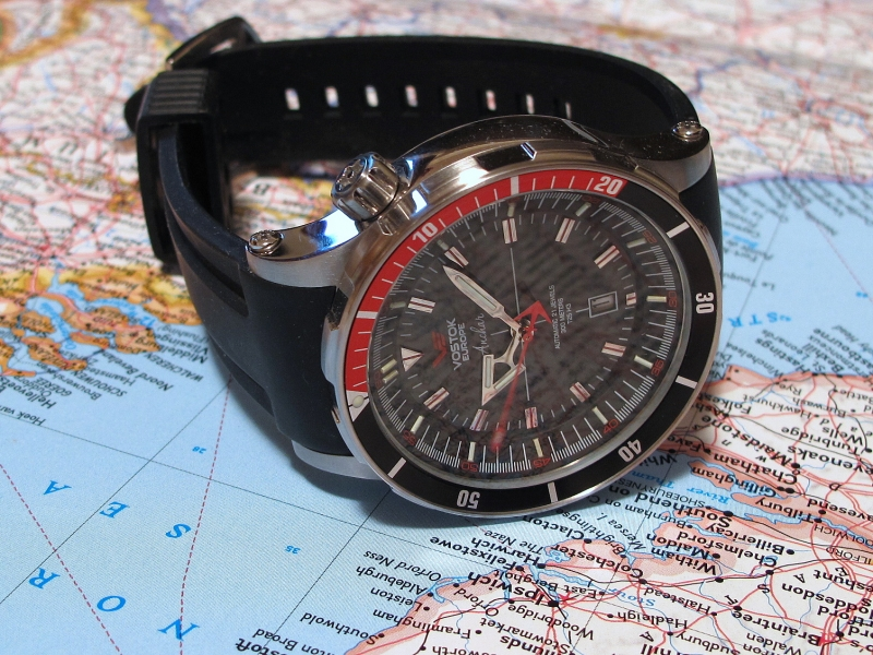 Vostok Europe Anchar 300 m diving watch.